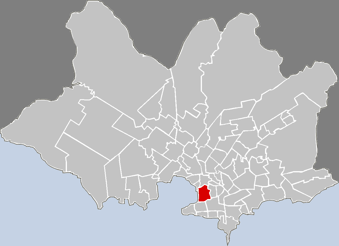 Map highlighting the given barrio in Montevideo.